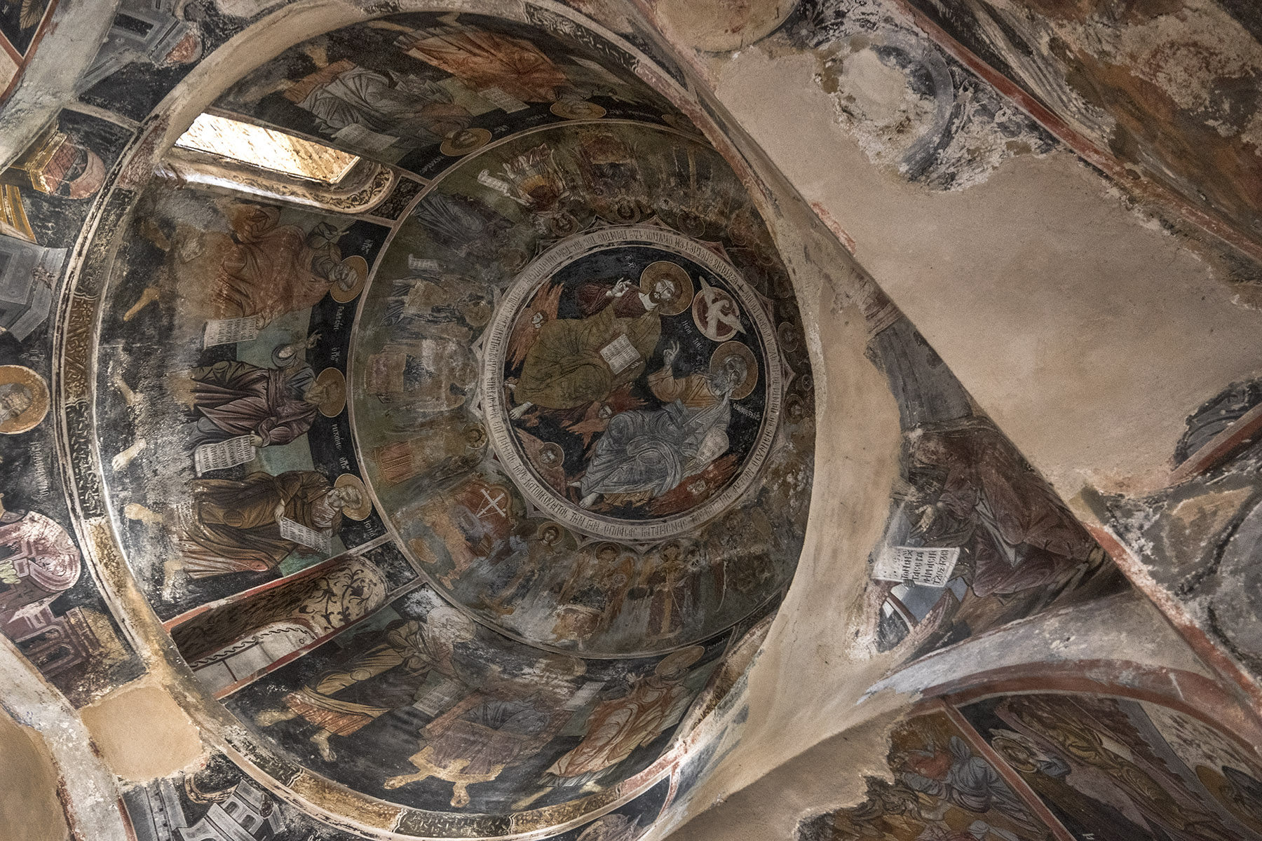 Kaisariani Monastery Athens, polychrome fresco on ceiling of church, December 13, 2019